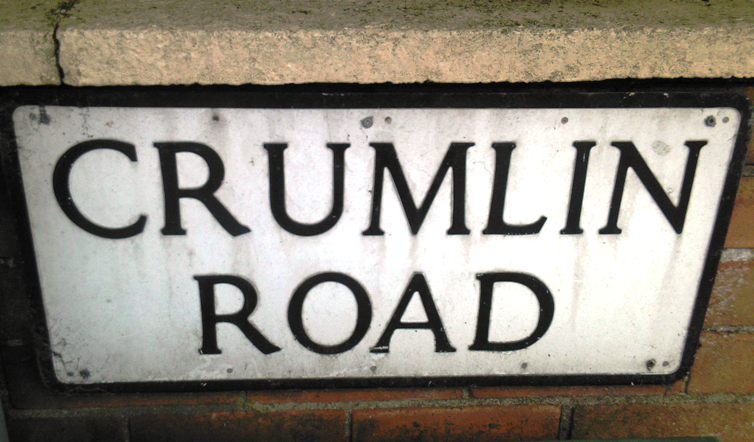 Street sign of Belfast's Crumlin Road, Ballysillan